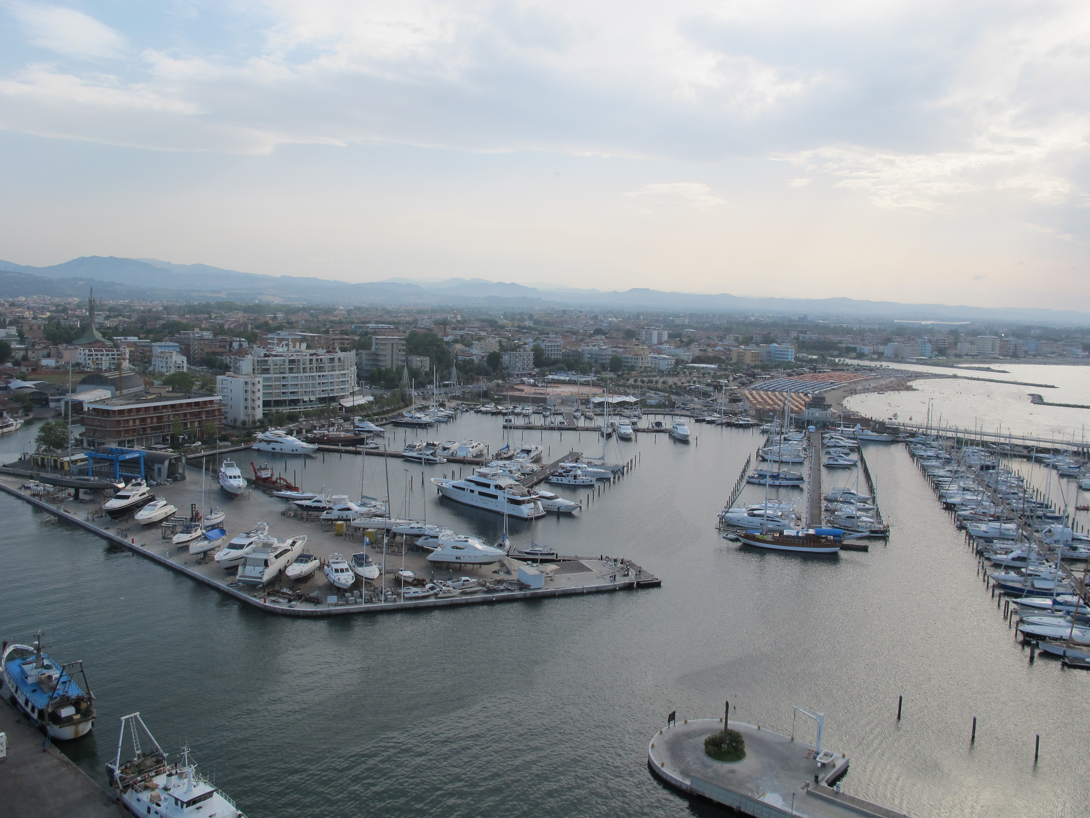 The urban areas of San Giuliano Mare and, secondly, Rivabella. They are hamlets city of Rimini, Italy. Photo taken from the ferris wheel on July 14, 2012.